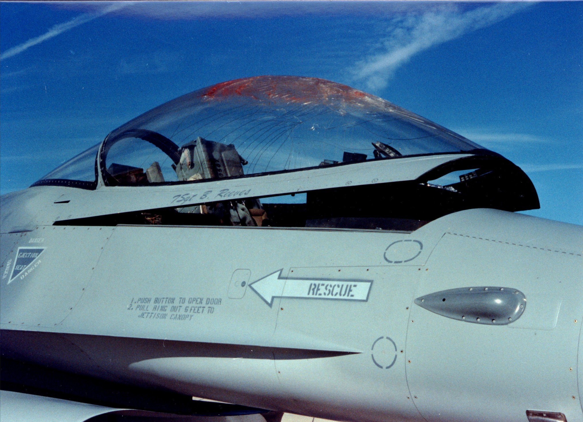 Canopy of F16 after bird strike Use of appropriate byline/photo/image credits is requested.